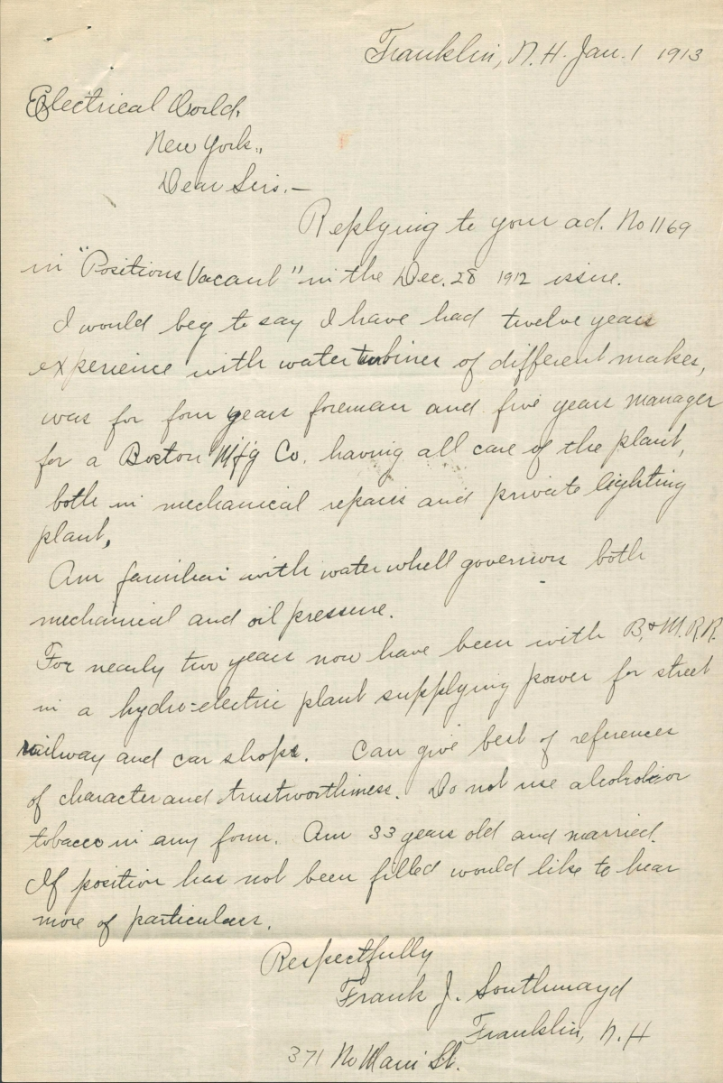 Job application letter from Frank J. Southmayd to Pennsylvania Power and Light (PPL) January 1, 1913